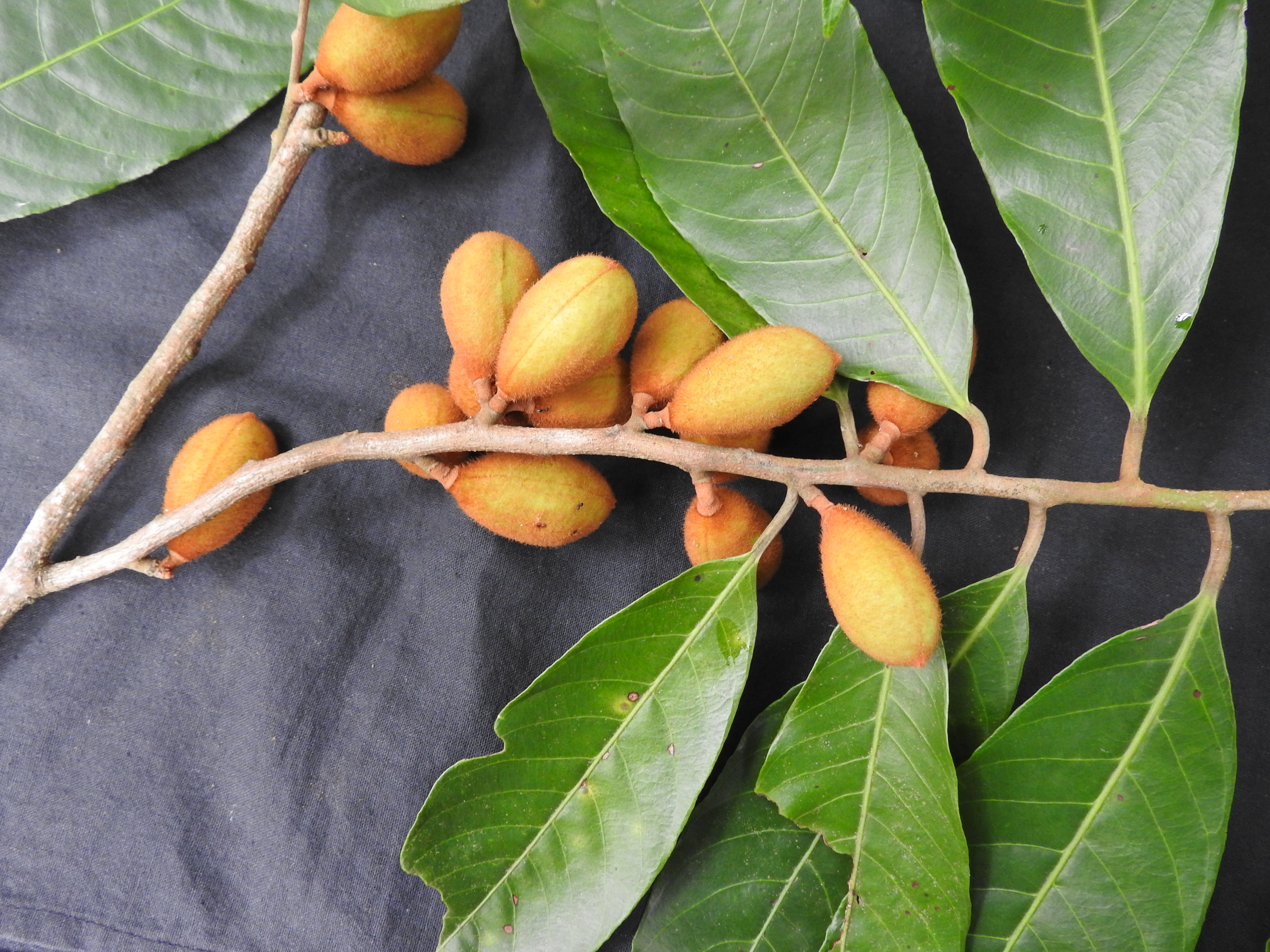 Myristicaceae-tree,fruits brown,arillus crimson.